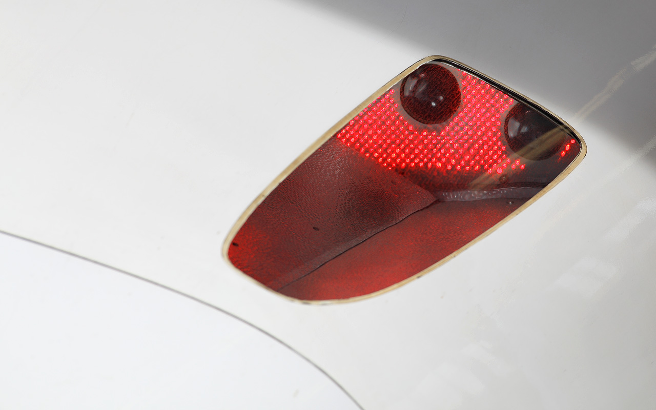 Lamp unit of N700 series Shinkansen train. HID Headlamps and LED Taillamps ( shown ).